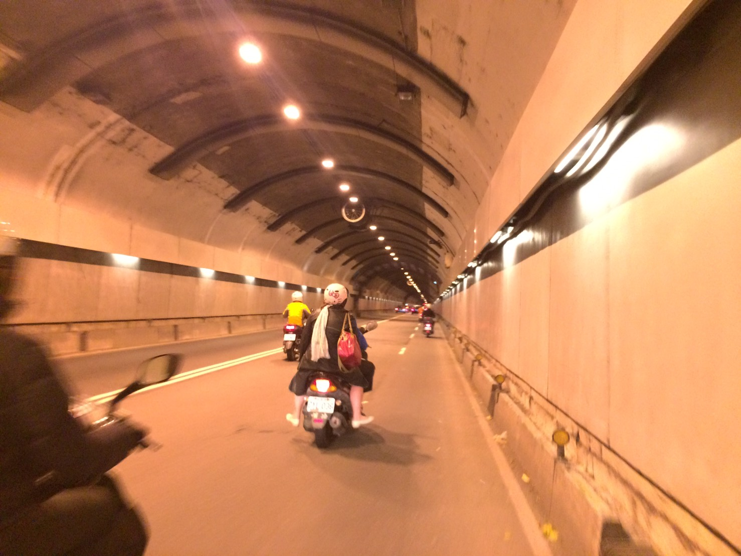 Ziqiang Tunnel (自強隧道), driving from Beian Road (北安路) to Ziqiang Bridge (自強橋) on 31 October 2017 (Picture 2).